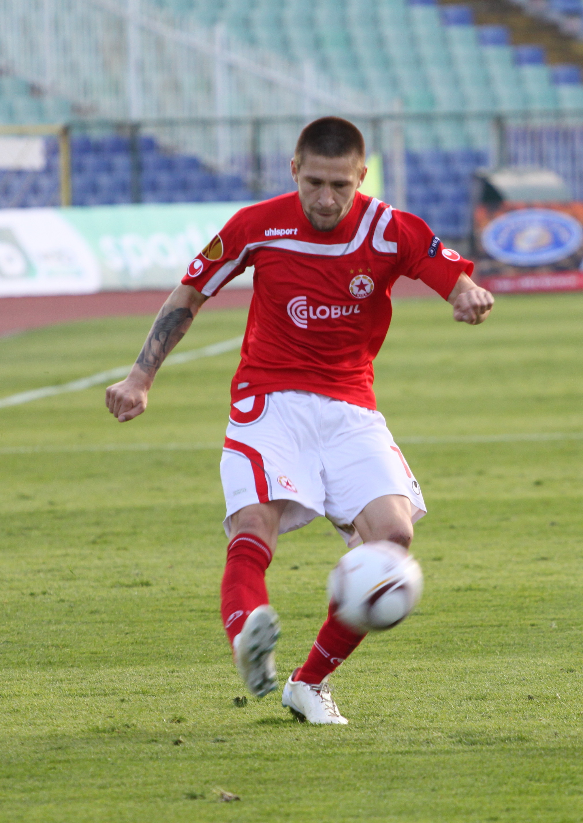 Ivan Bandalovski (Bulgarian: Иван Бандаловски) (born 23 November 1986) is a Bulgarian footballer, currently playing for CSKA Sofia as a right defender